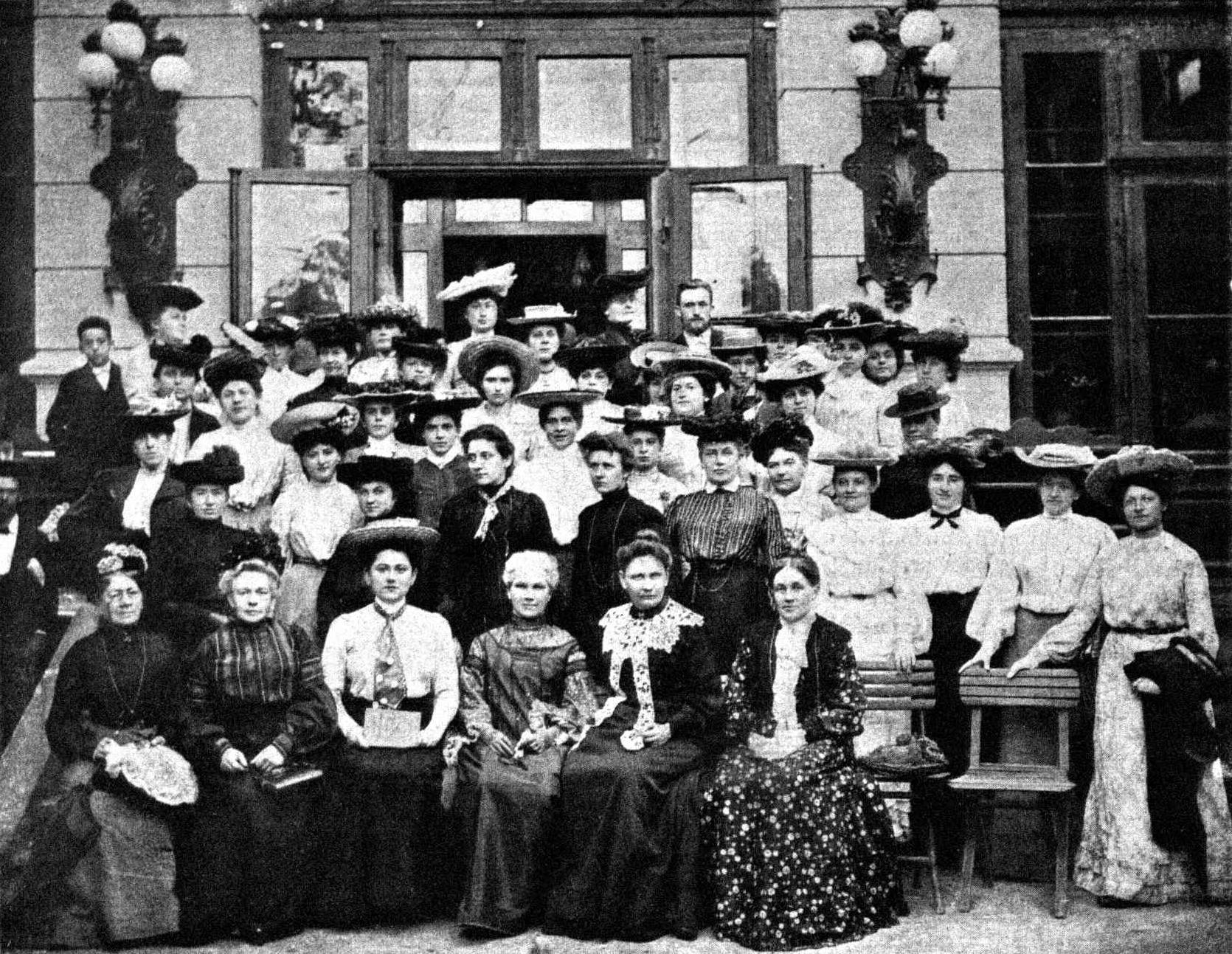 Newspaper picture of a meeting of the Allgemeiner Österreichischer Frauenverband (General Austrian Women's Association) in 1904 in Vienna, photographed by Josef Bopiel. It was digitized by the Österreichische Nationalbibliothek (Austrian National Library), on which it claims no additional copyright (terms - in German - can be found here